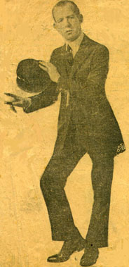 Vaudevillian Joe Frisco in the 1910s.